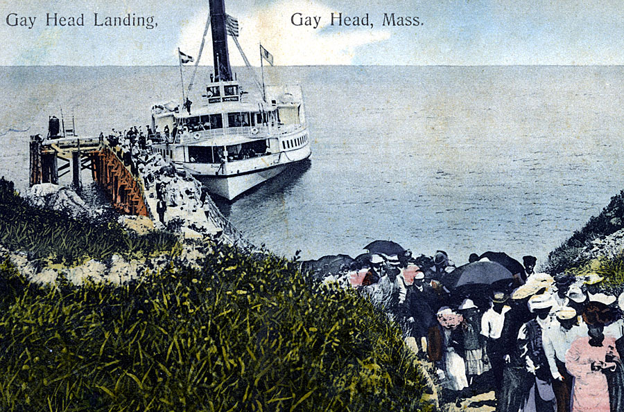 Postcard image of paddlewheel steamer Martha's Vineyard at Gay Head Landing in Gay Head, Mass. (now Aquinnah, MA). Divided back postcard, postmarked November 1917.